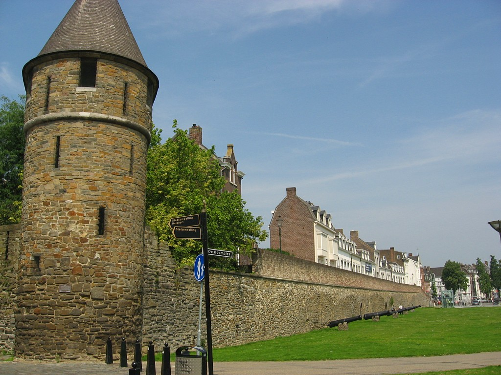 The Onze Lieve Vrouwe Wal - Our Dear Lady Embankment - in Maastricht. It is named after the nearby basilica minor of the same name.